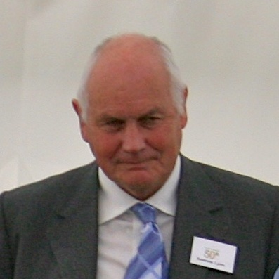 Past Director of Jodrell Bank Observatory in 2007. Andrew Lyne. At the Jodrell Bank 50th anniversary reunion.